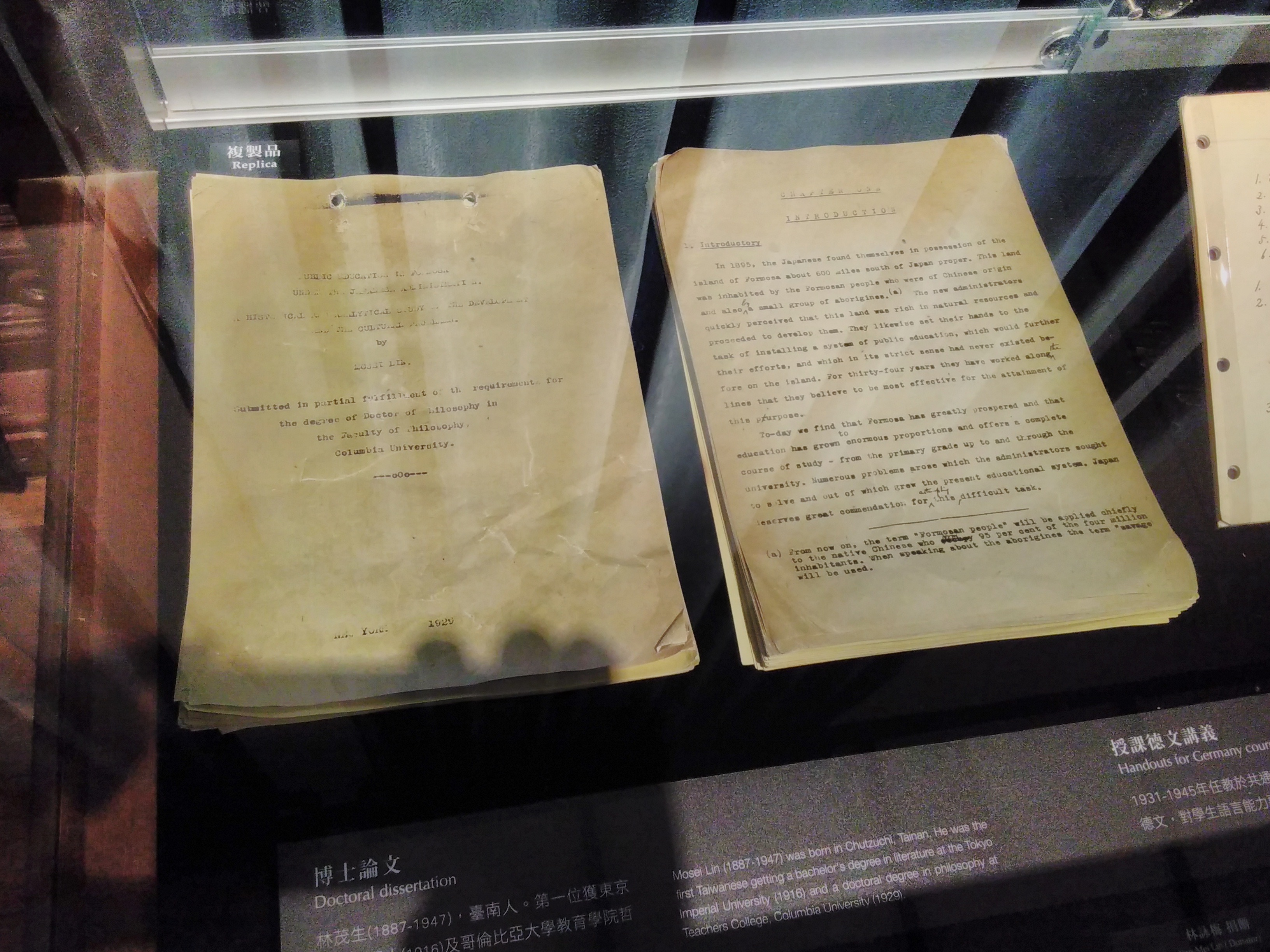 A replica of Lin Mosei’s Columbia University PhD (doctoral) thesis displayed in the NCKU Museum. Bân-lâm-gú: Lîn Bō͘-seng tī Columbia Tāi-ha̍k siá ê phok-sū lūn-bûn – ho̍k-ìn-pún tián-sī tī Sêng-kong Tāi-ha̍k.